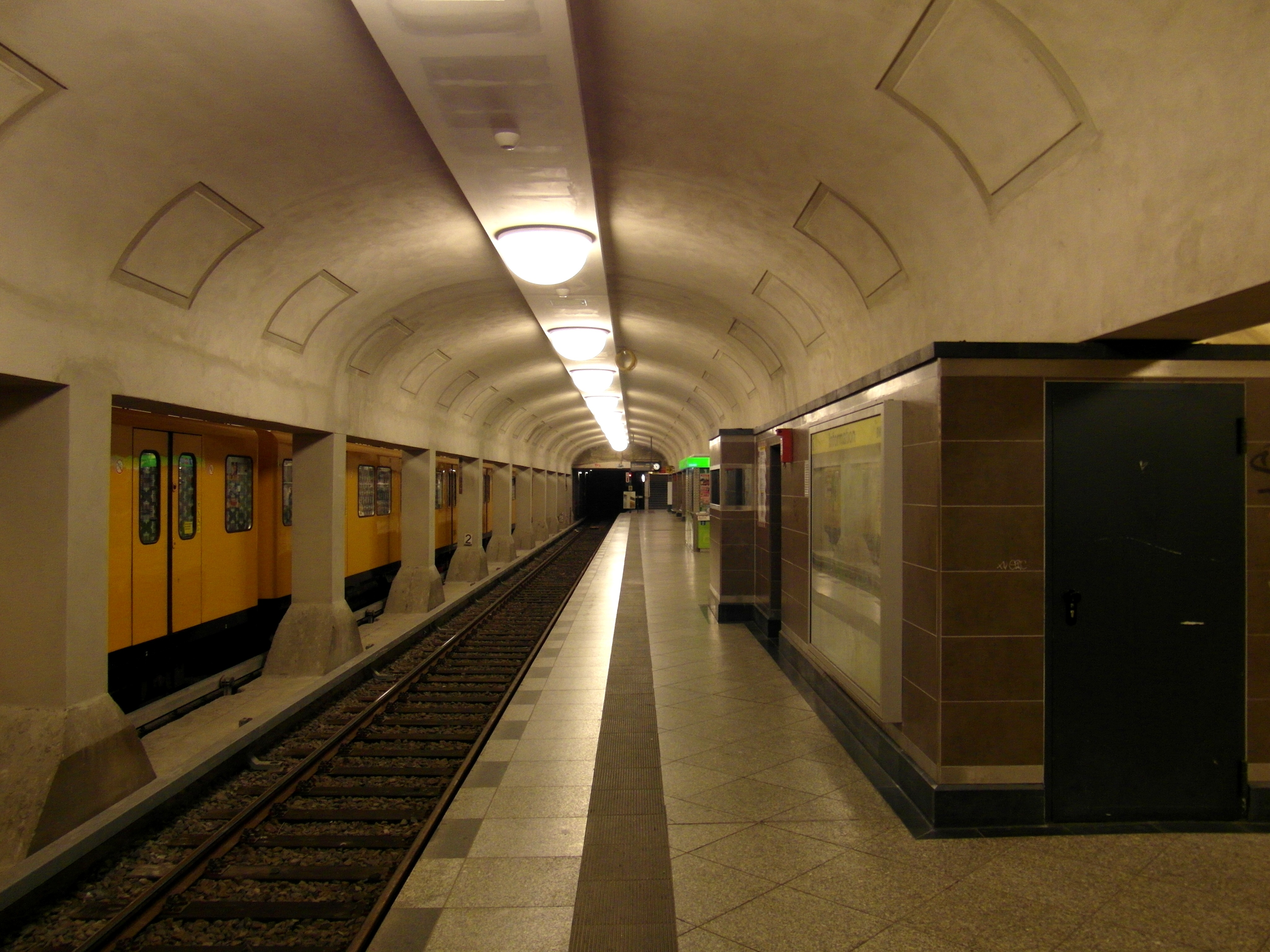 Berlin's underground station Mehringdamm, lines U6 & U7